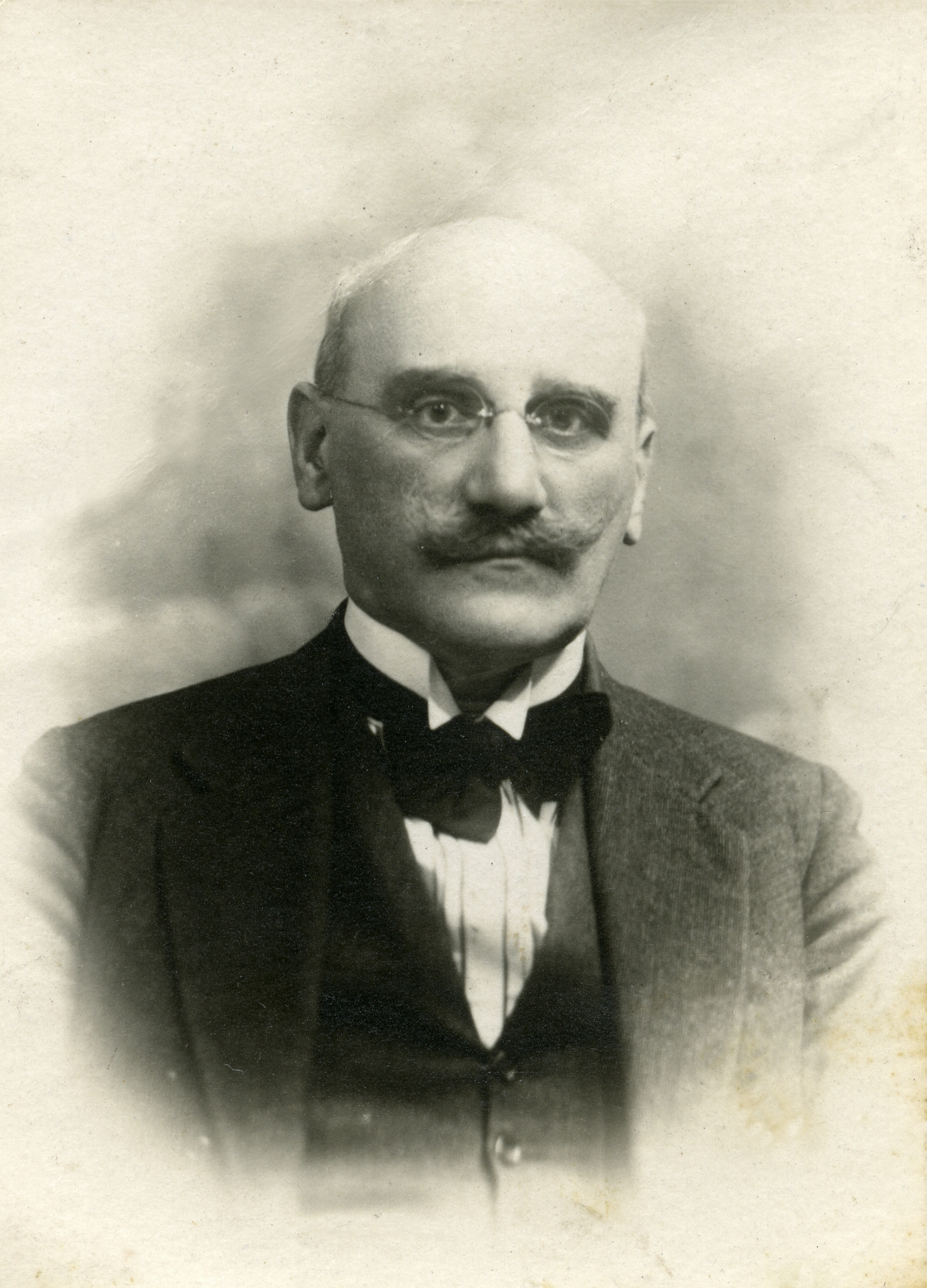 Photo of Wladyslaw Semadeni, a Polish presbyterian priest, taken ca. 1920.